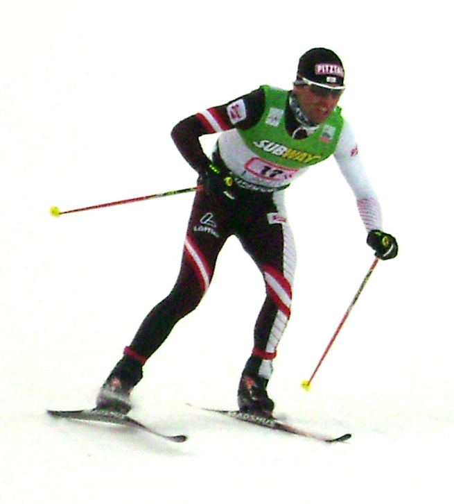 Austrian nordic combined skier Mario Stecher at Lahti Ski Games 2014.